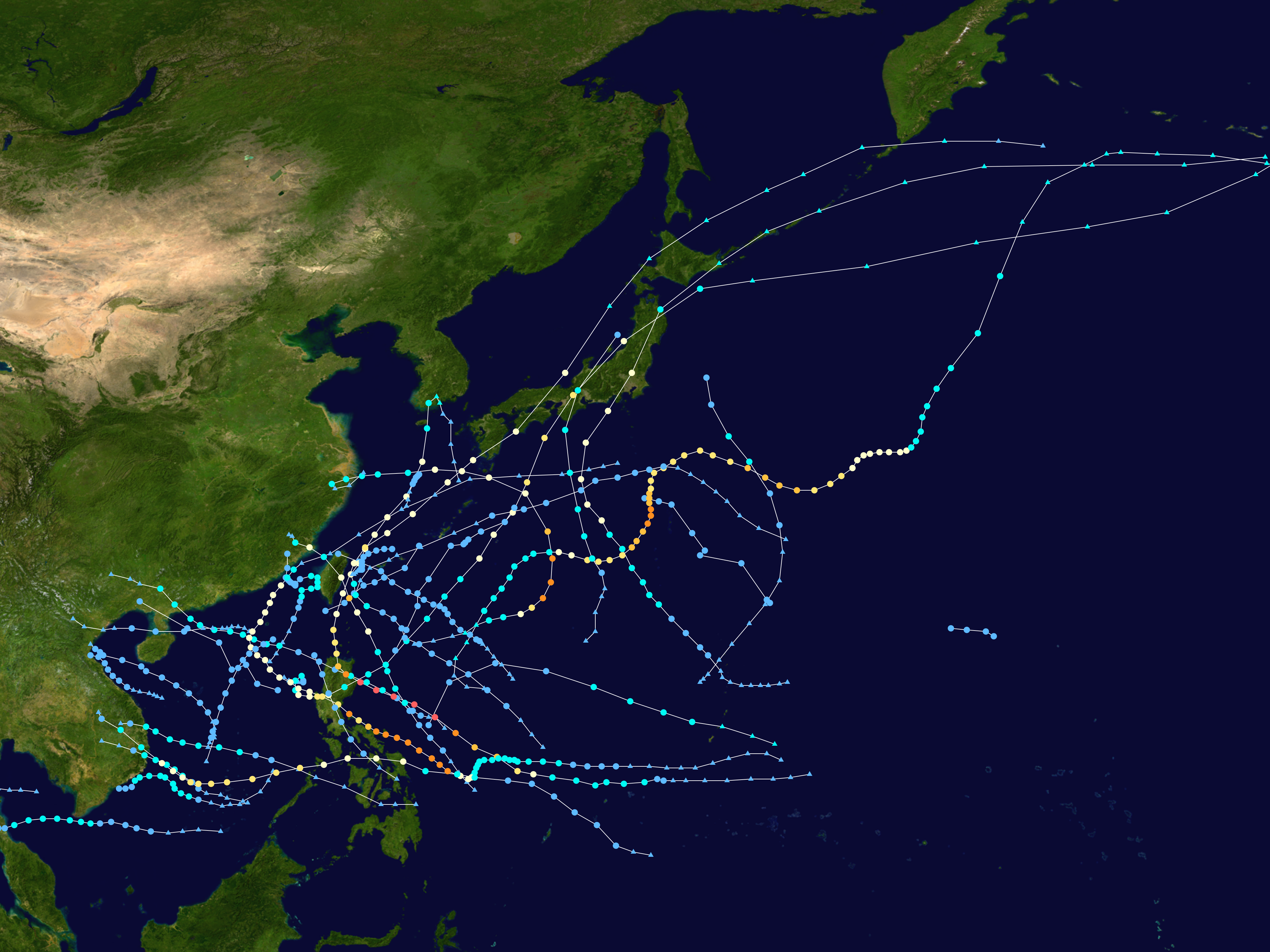 This map shows the tracks of all tropical cyclones in the 1998 Pacific typhoon season. The points show the location of each storm at 6-hour intervals. The colour represents the storm's maximum sustained wind speeds as classified in the Saffir-Simpson Hurricane Scale (see below), and the shape of the data points represent the type of the storm. Map generation parameters: --res 4000 --extra 1 --dots 0.2 --lines 0.04 --xmin 100 --xmax 180 --ymin 0 --ymax 60 Saffir–Simpson scale Tropical depression≤38 mph≤62 km/h Category 3111–129 mph178–208 km/h Tropical storm39–73 mph63–118 km/h Category 4130–156 mph209–251 km/h Category 174–95 mph119–153 km/h Category 5≥157 mph≥252 km/h Category 296–110 mph154–177 km/h Unknown Storm type Tropical cyclone Subtropical cyclone Extratropical cyclone / Remnant low / Tropical disturbance / Monsoon depression